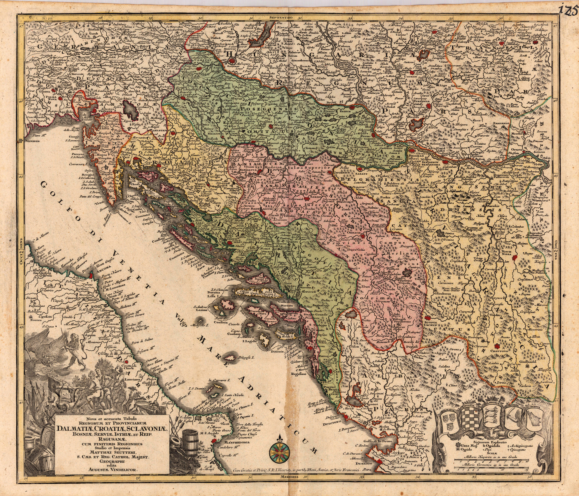 Dalmatia, Croatia and Sclavonia 1720